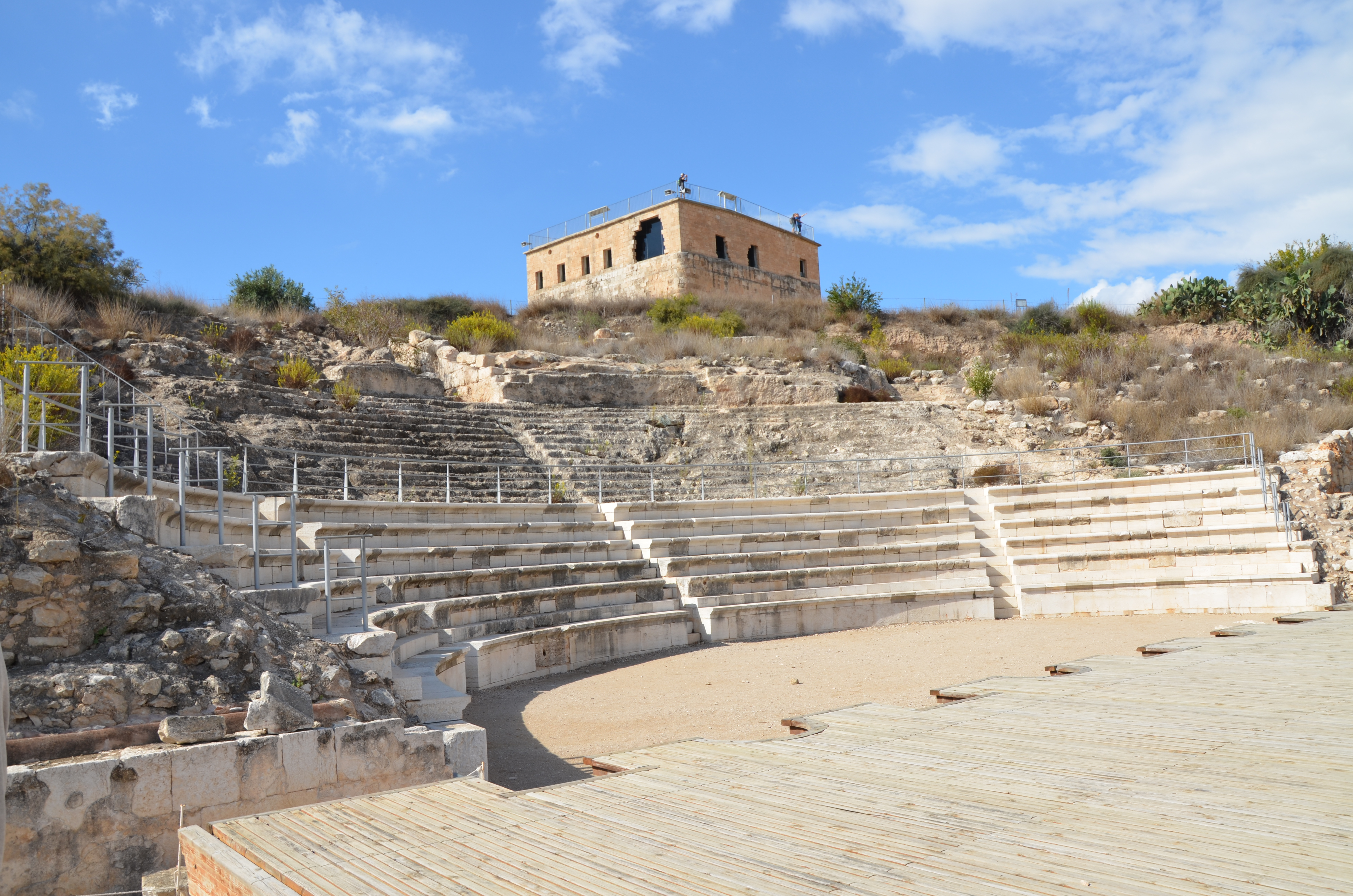 Sepphoris (Diocaesarea), Israel